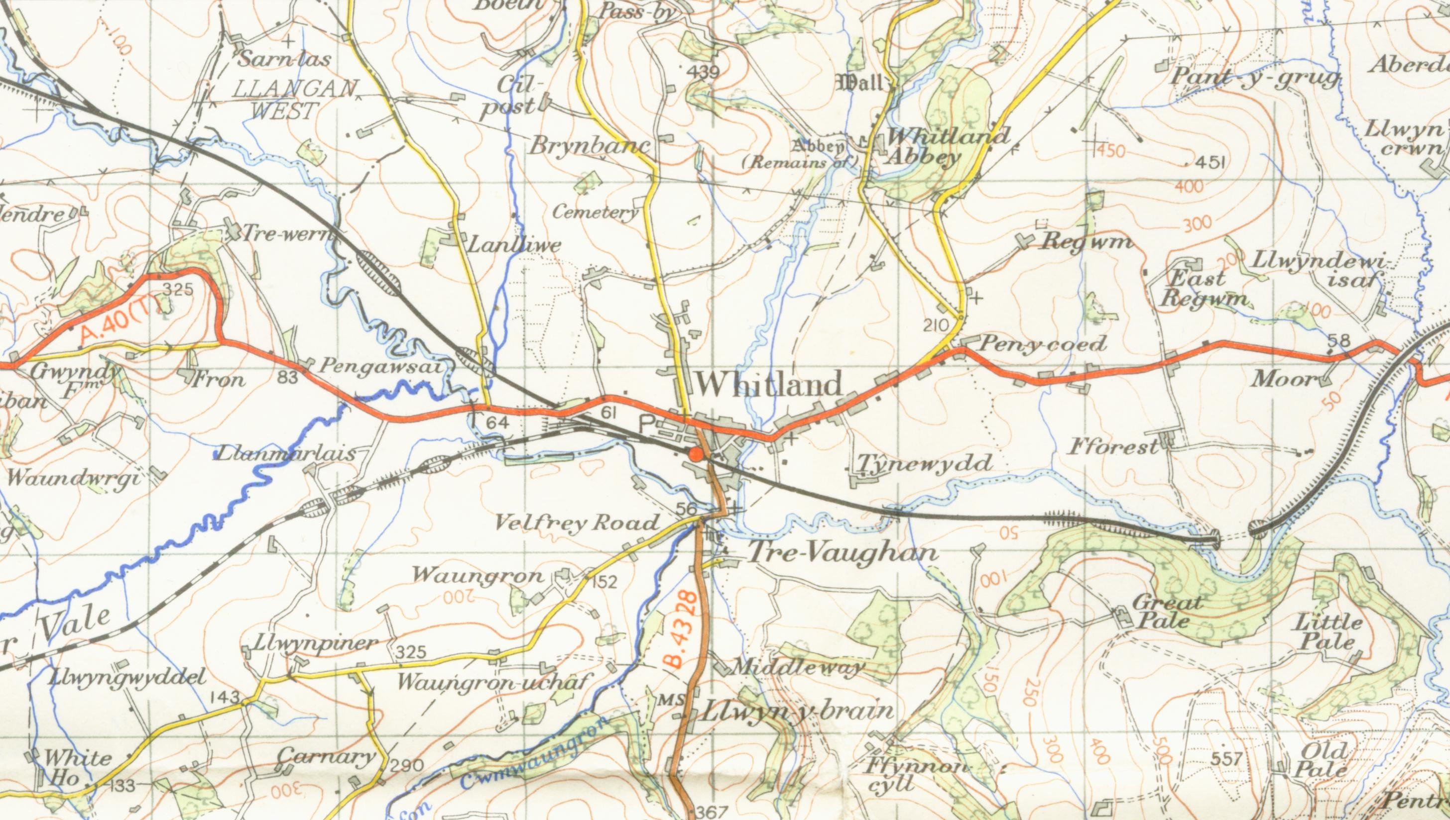 map of area around Whitland at 1 inch to the mile scale scanned at 600 DPI